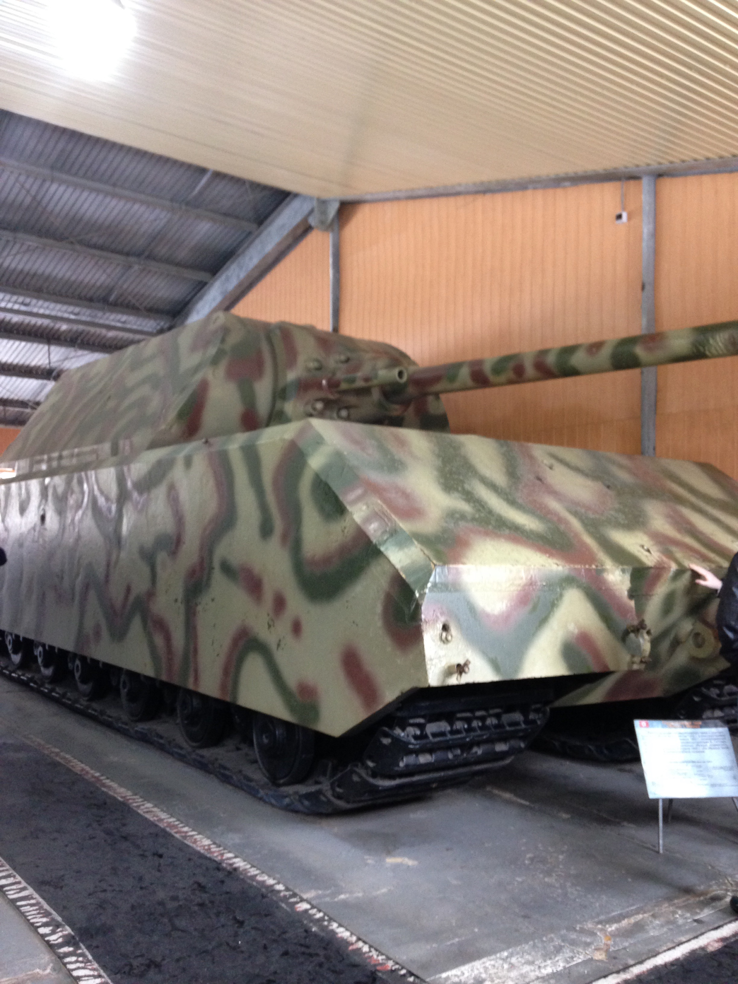 My picture of the Maus in Kubinka